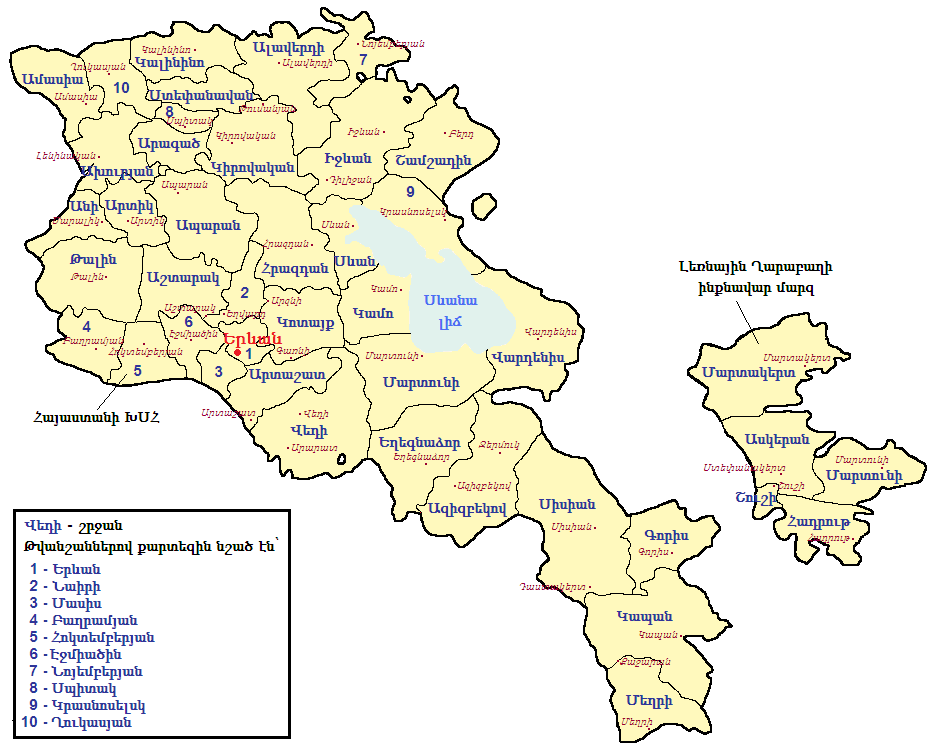 Administrative divisions of Soviet Armenia and Nagorno-Karabakh Autonomous Oblast. Armenian variant.